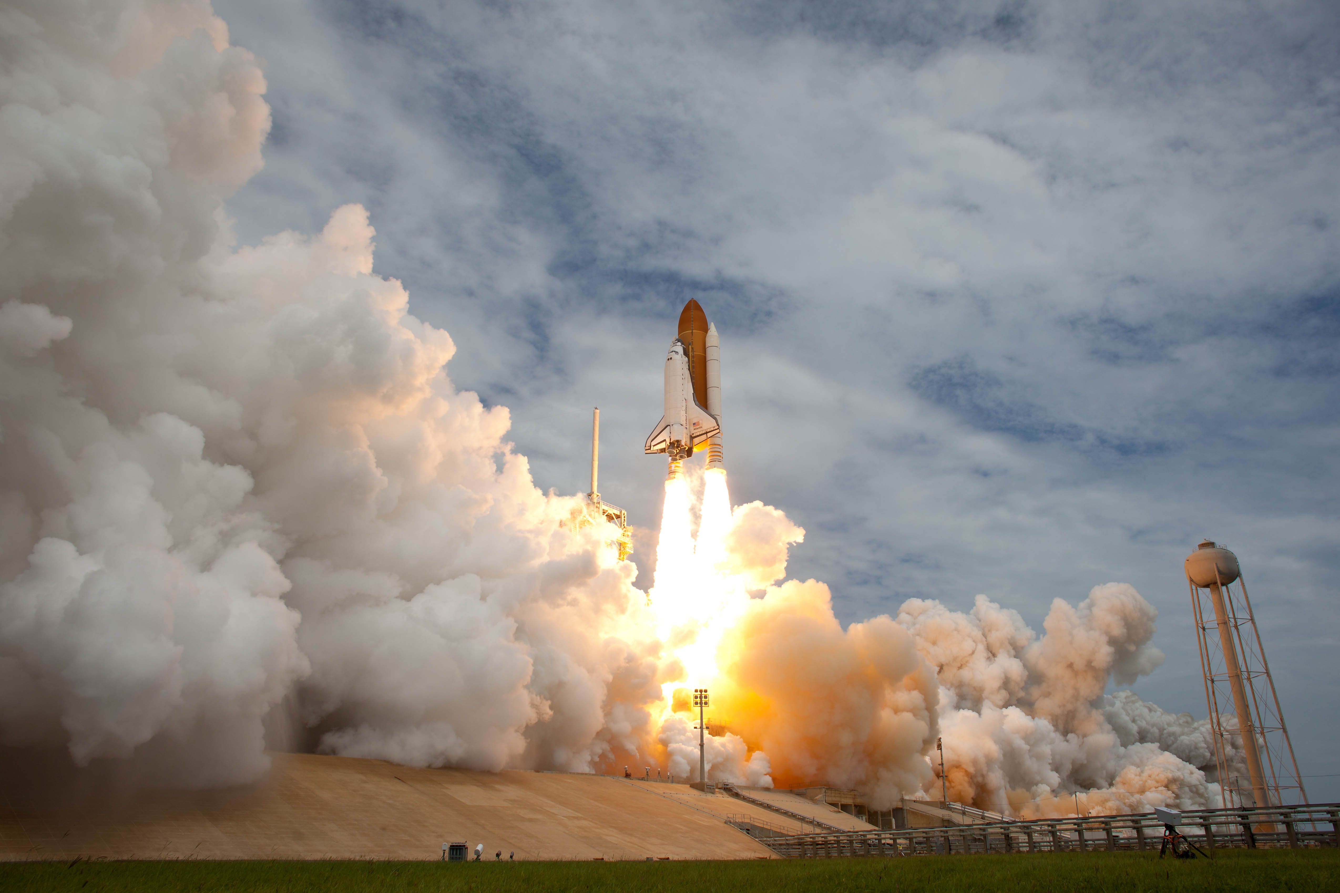 Space Shuttle Atlantis is seen as it launches from pad 39A on Friday, July 8, 2011, at NASA's Kennedy Space Center in Cape Canaveral, Florida.